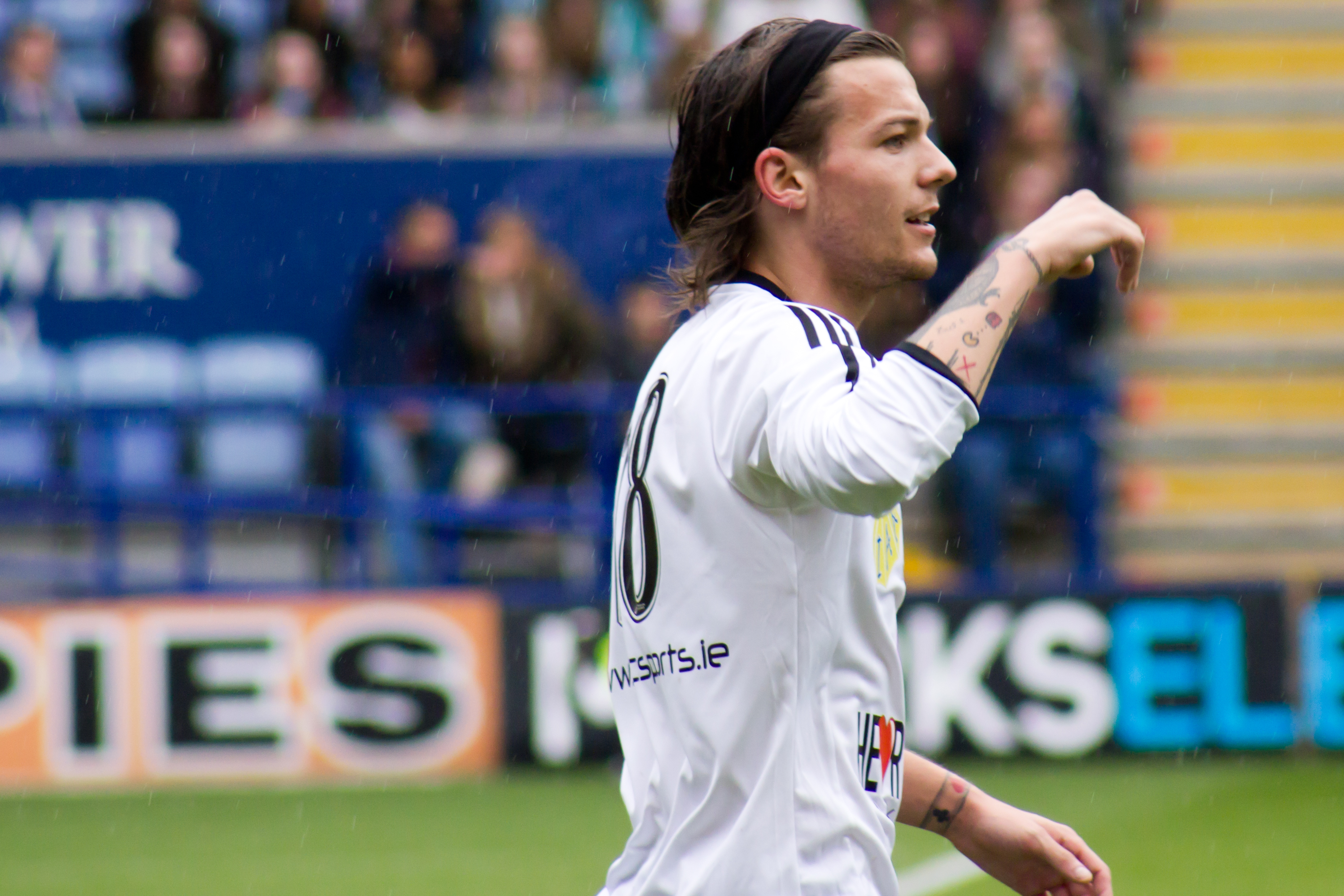 Louis Tomlinson at Niall Horan Charity Football Challenge